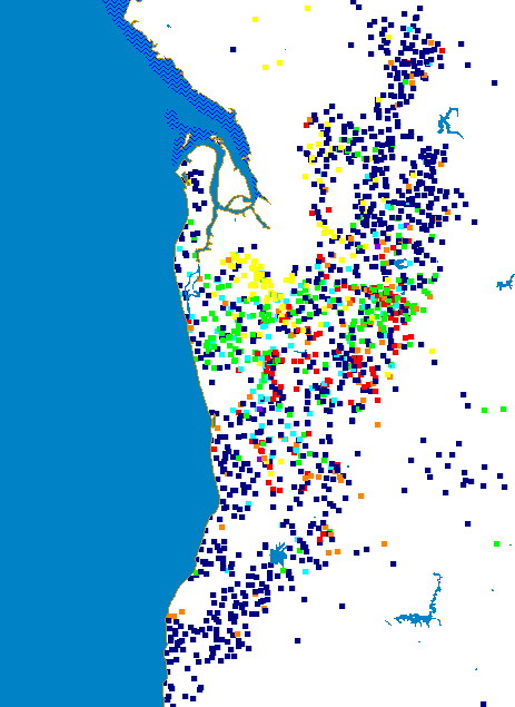 One dot represents 100 persons born in the UK (dark blue), Greece (light blue), China (red), Italy (light green), Germany (orange), Iraq (purple) and Vietnam (yellow), based on 2006 Census.